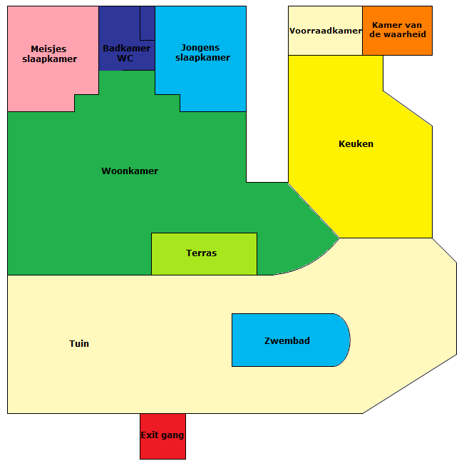 Map of the first house of Dutch Secret Story.